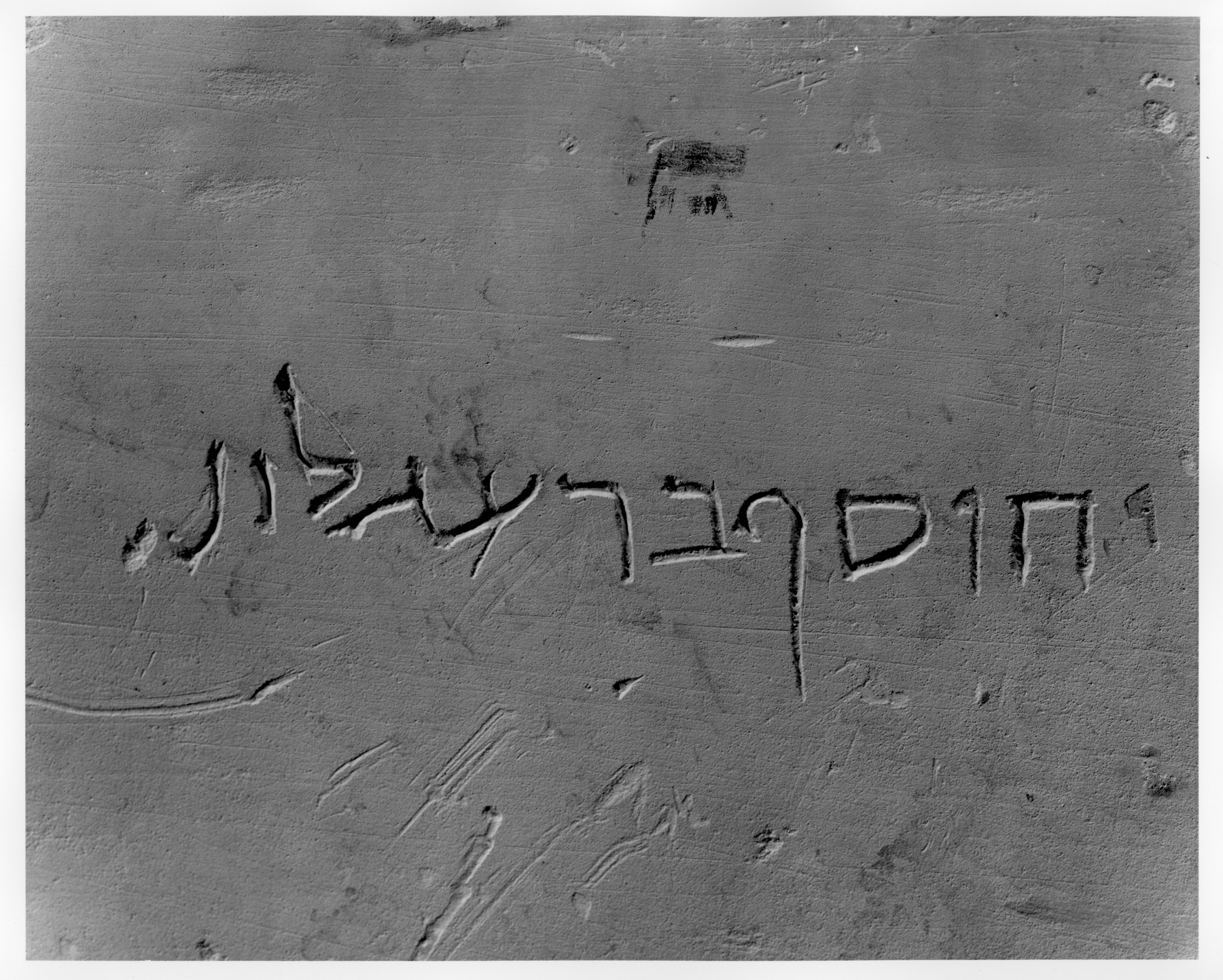 The shape of this piece was inspired by wooden chests that were used in Jewish homes. The origin of the Jewish ossuary (a box for holding bones) can be traced back to the late 1st century BC, during the time when Rome ruled the Holy Land. At that time, by Jewish custom, when someone died, the body was placed in a wooden coffin within a rock-hewn tomb or burial cave. After a year, the bones were removed and put into an ossuary in the family tomb. On this example, the name of the deceased is carved on the back: "Yehosef bar Aglon" or "Yehosef, the son of Aglon."